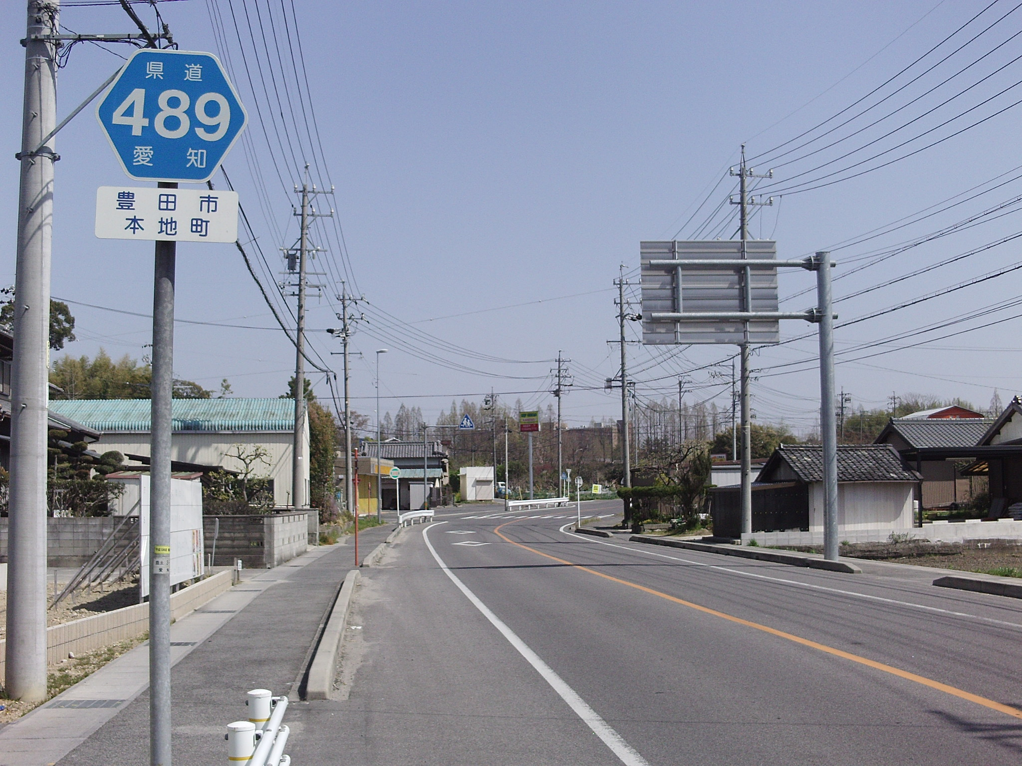 Aichi prefectural road No.489 in Honjicho, Toyota, Aichi.